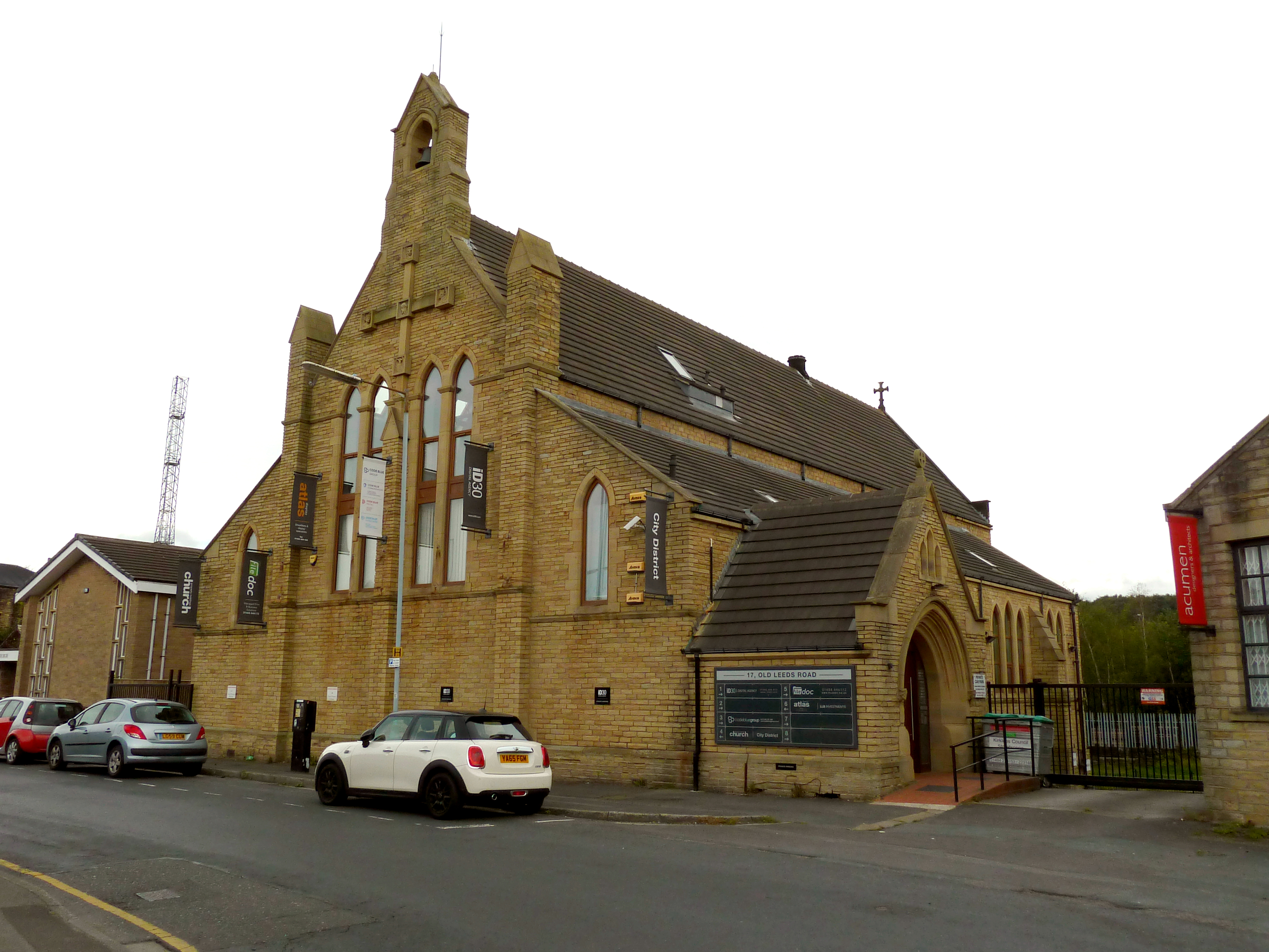 Former Church of St Mark, Old Leeds Road, Huddersfield, North Yorkshire, England. Built 1887, designed by architect William Swinden Barber. View from south-west.